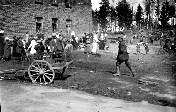 1918 Finnish Civil War: Red women and children prisoners in the Hennala camp after the Battle of Lahti.